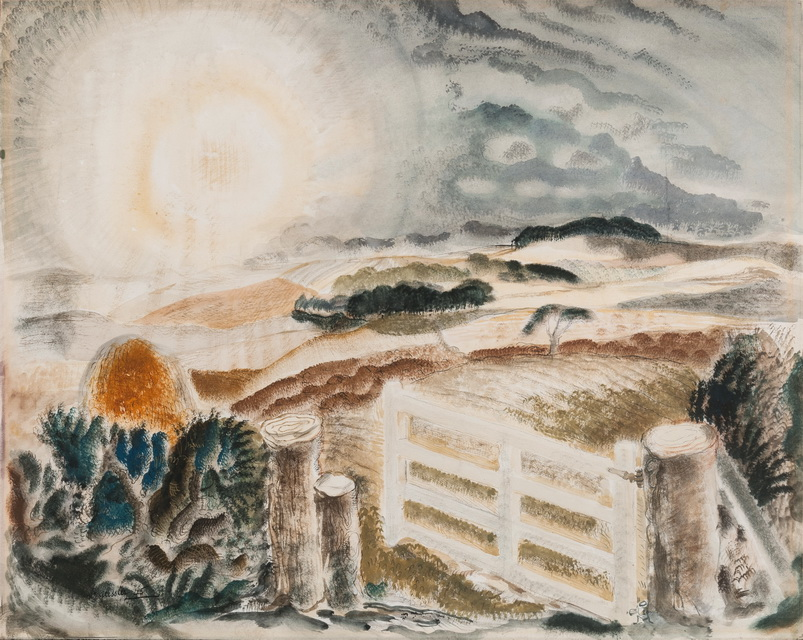 Gouache with pen and ink 1945. View of a green hedge fence in the foreground with a half-open white gate, leading into an open field lit by sunshine. With permission of the artist's heirs. A painting showing a similar scene with a different view, also by William Geissler, is owned by The Fleming Collection (catalogue number FCID353); Morning Sun, 1945 (Gouache with pen and ink), Geissler, William (1894-1963) / © The Fleming-Wyfold Art Foundation / Geissler Family